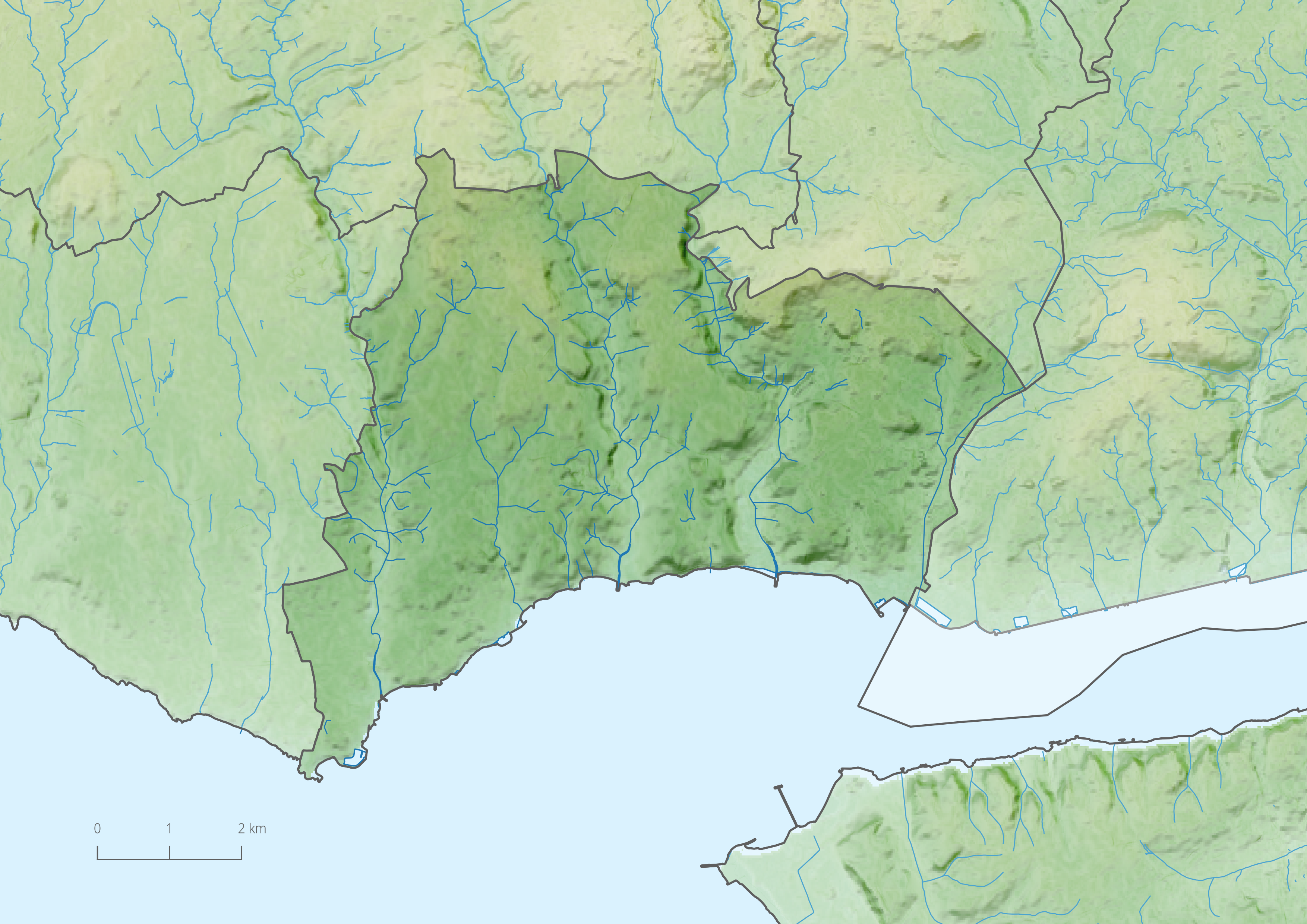 Relief map of Oeiras, Portugal, complete with administrative boundaries, as well as streams and rivers.